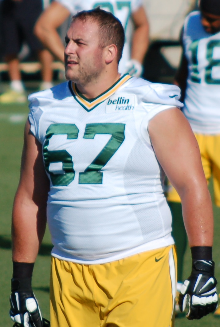 2015 Packers training camp